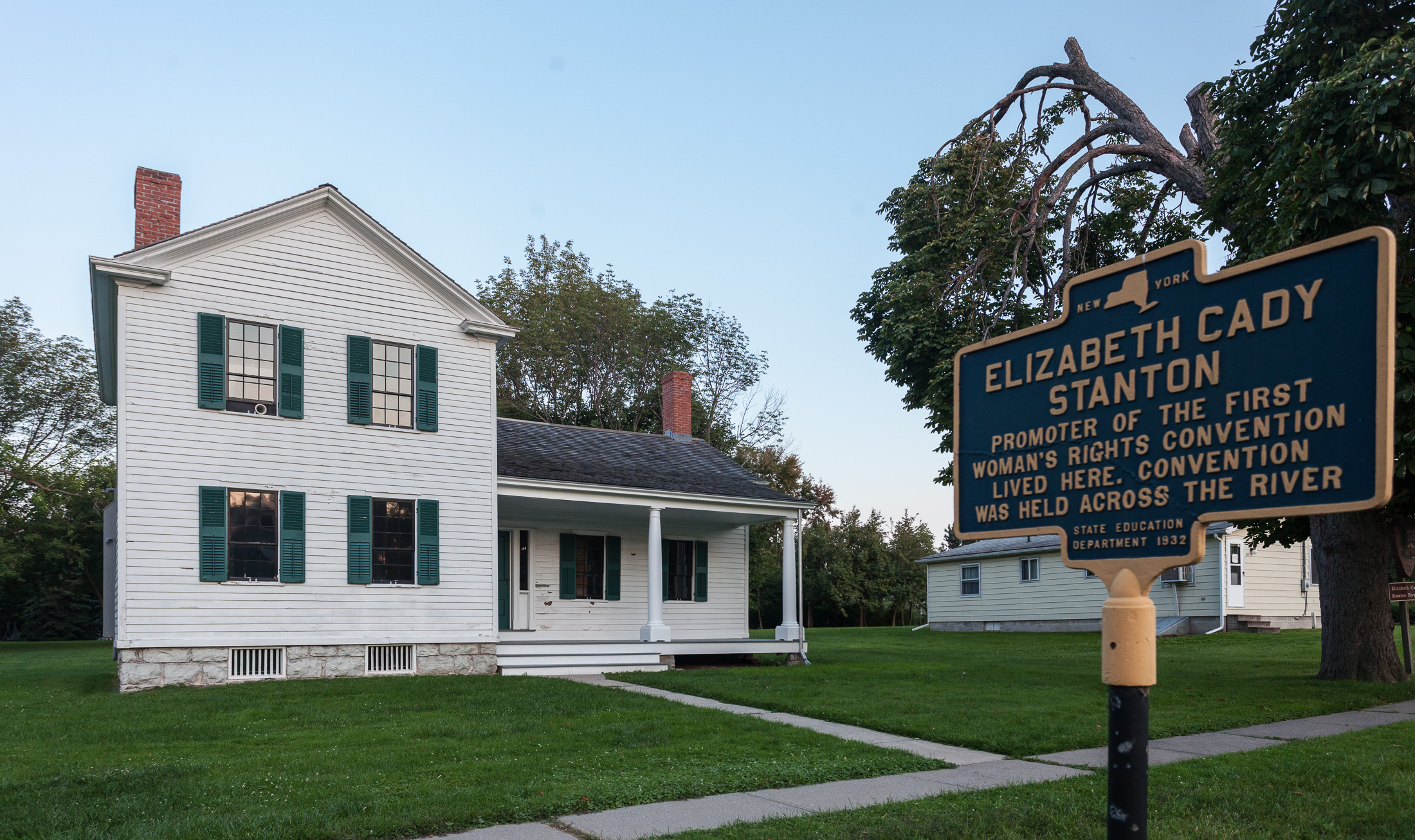 Elizabeth Cady Stanton House (Seneca Falls, New York), 32 Washington St. Seneca Falls